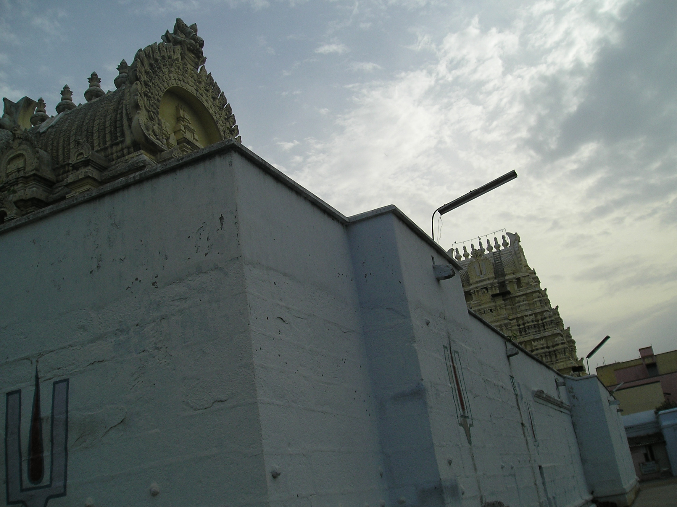 Kanchipuram Temples